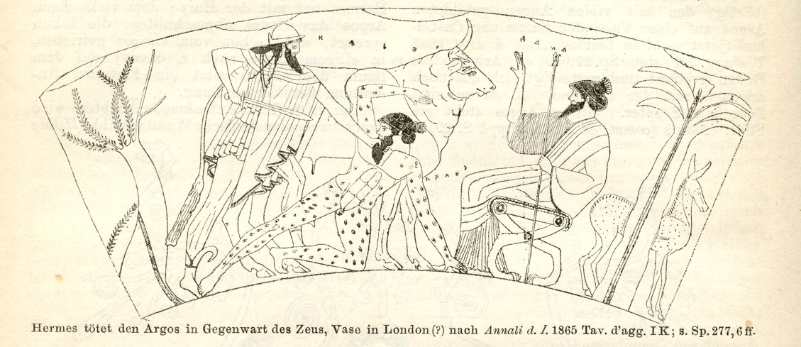 Drawing of an image from a 5th century BCE Athenian red figure vase depicting Hermes slaying the giant Argus Panoptes. Note the eyes covering Argus' body. Io as a cow stands in the background.